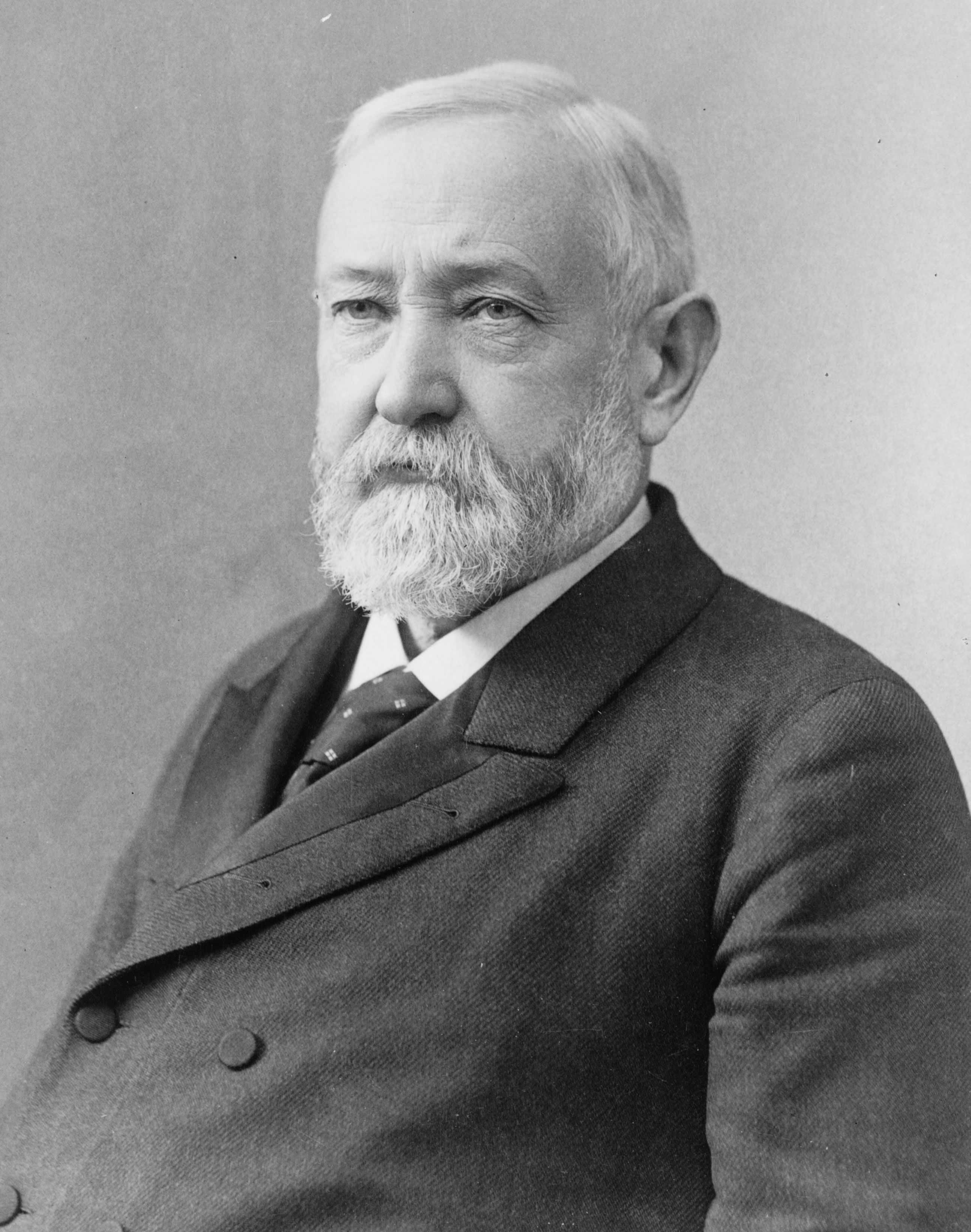 Benjamin Harrison, former President of the United States.